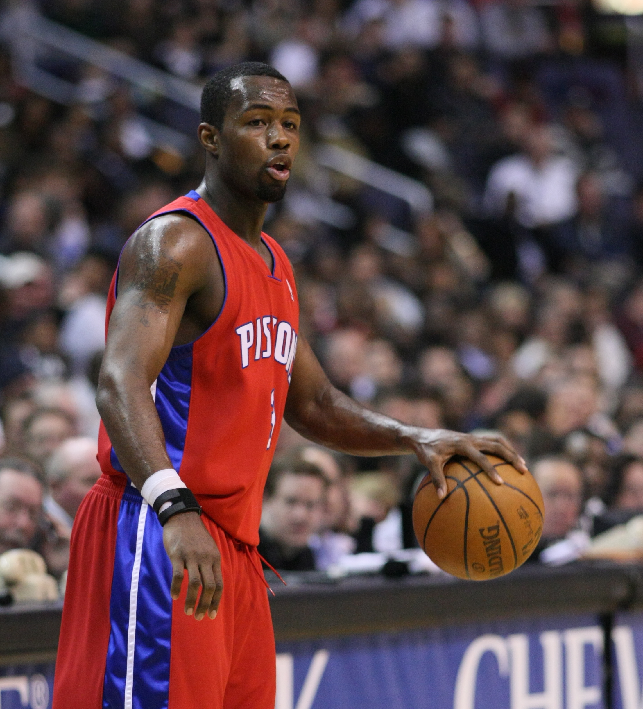 Rodney Stuckey, of the National Basketball Association's Detroit Pistons, during a 2008 basketball game against the Washington Wizards.